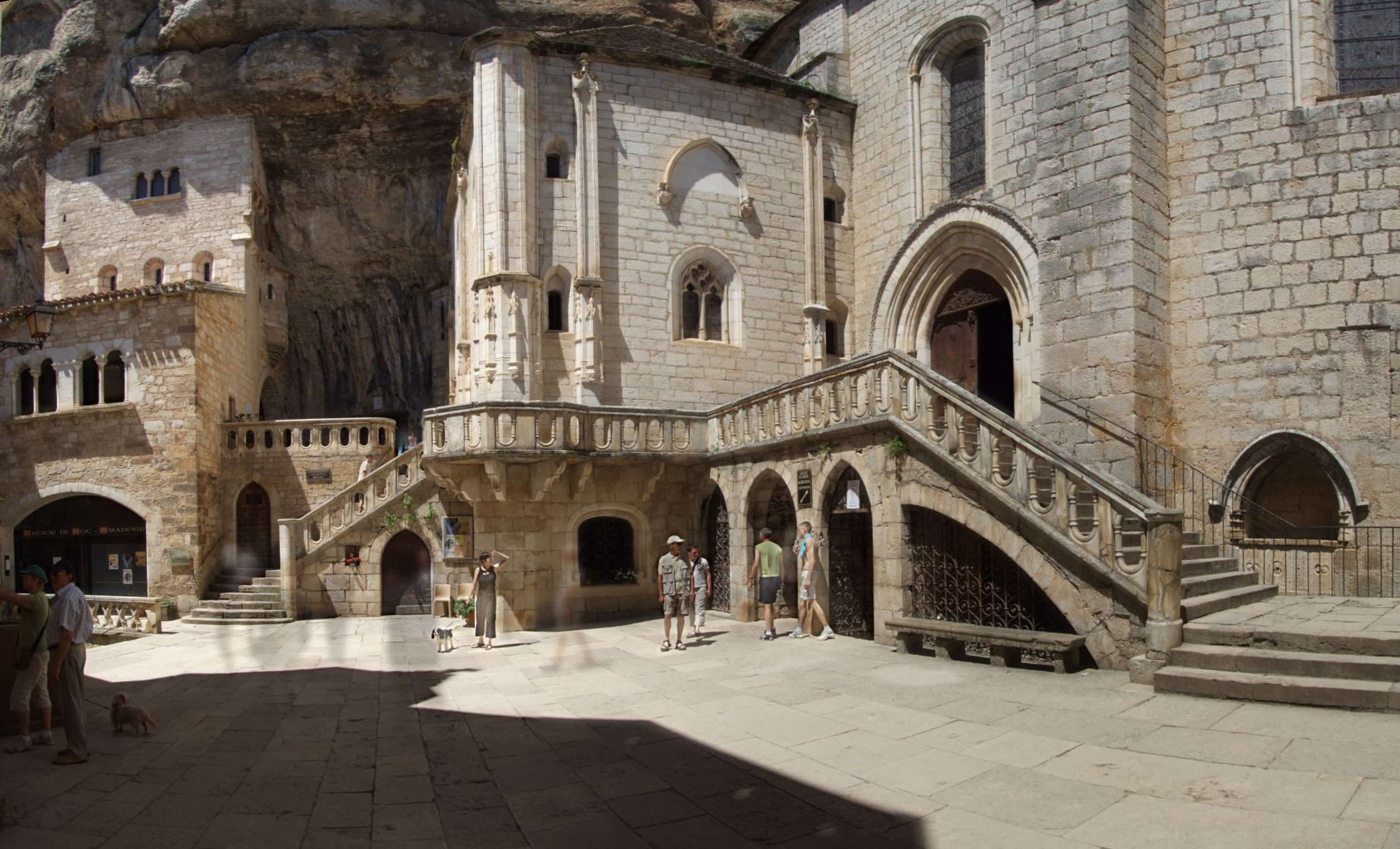 Rocamadour, Lot, FRANCE